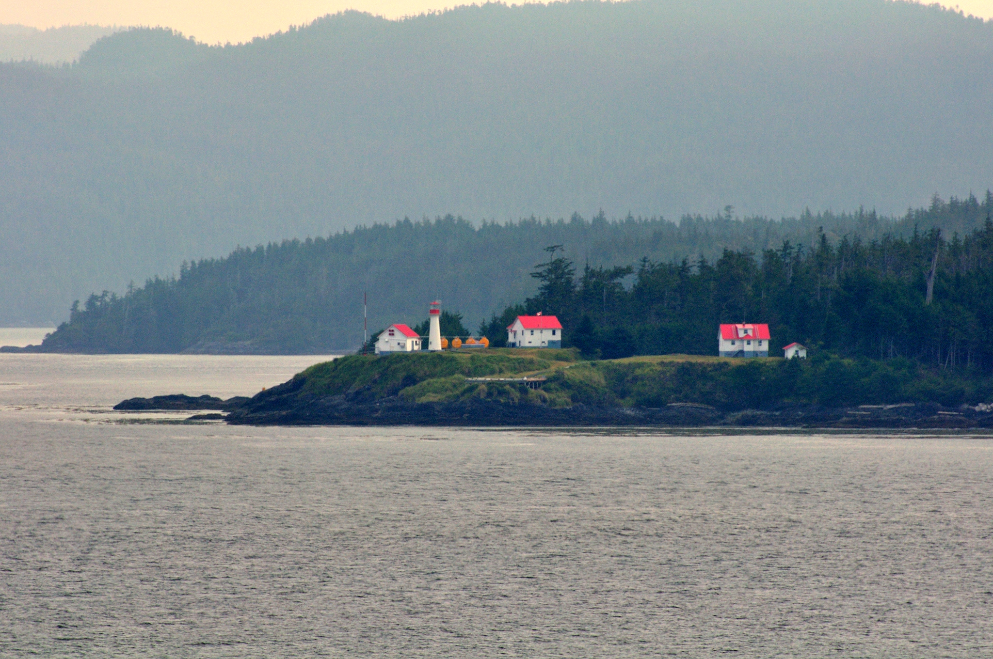 Scarlett Point Light Station, near Port Hardy, British Columbia.